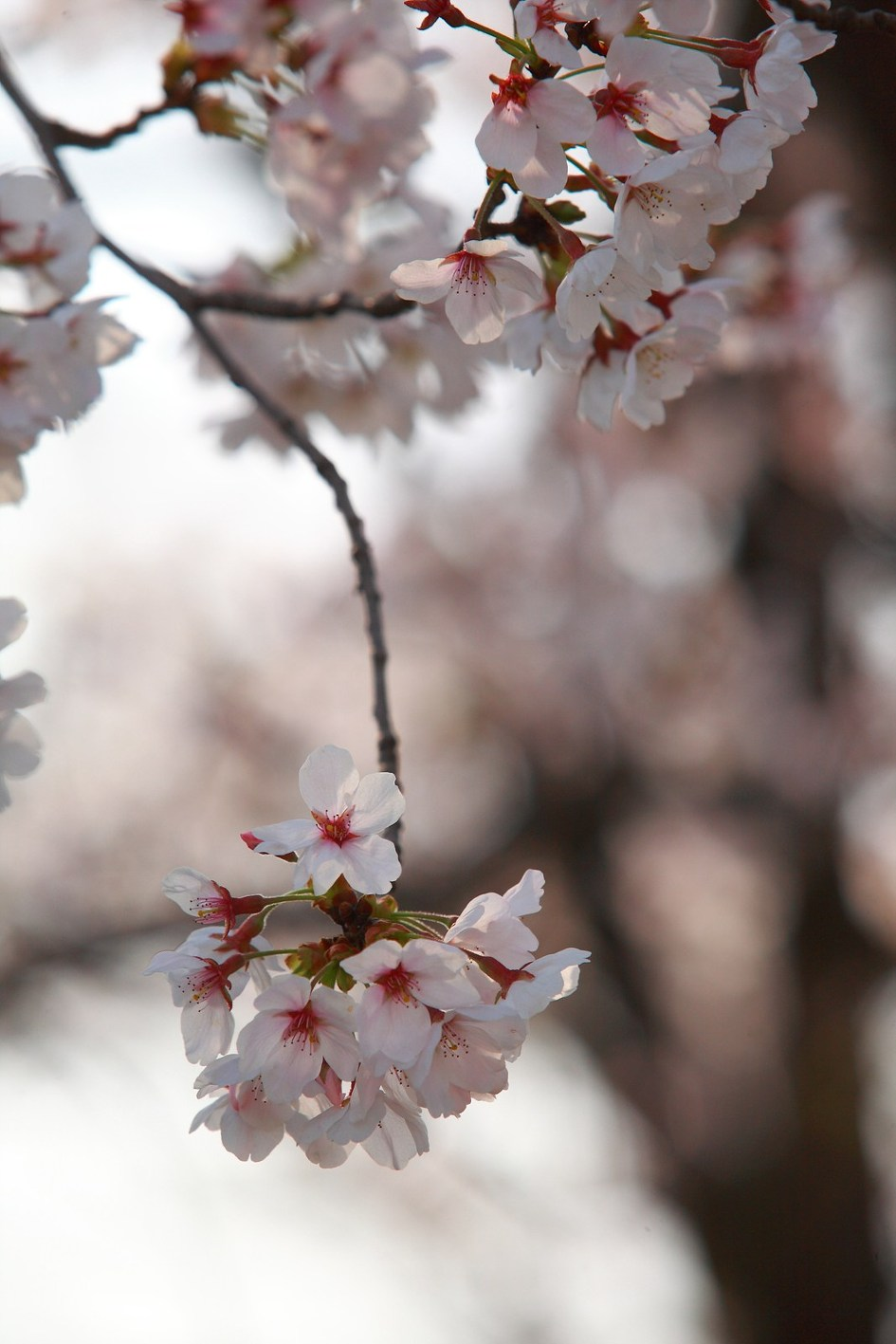 Jeju flowering cherry (Prunus × nudiflora) flower